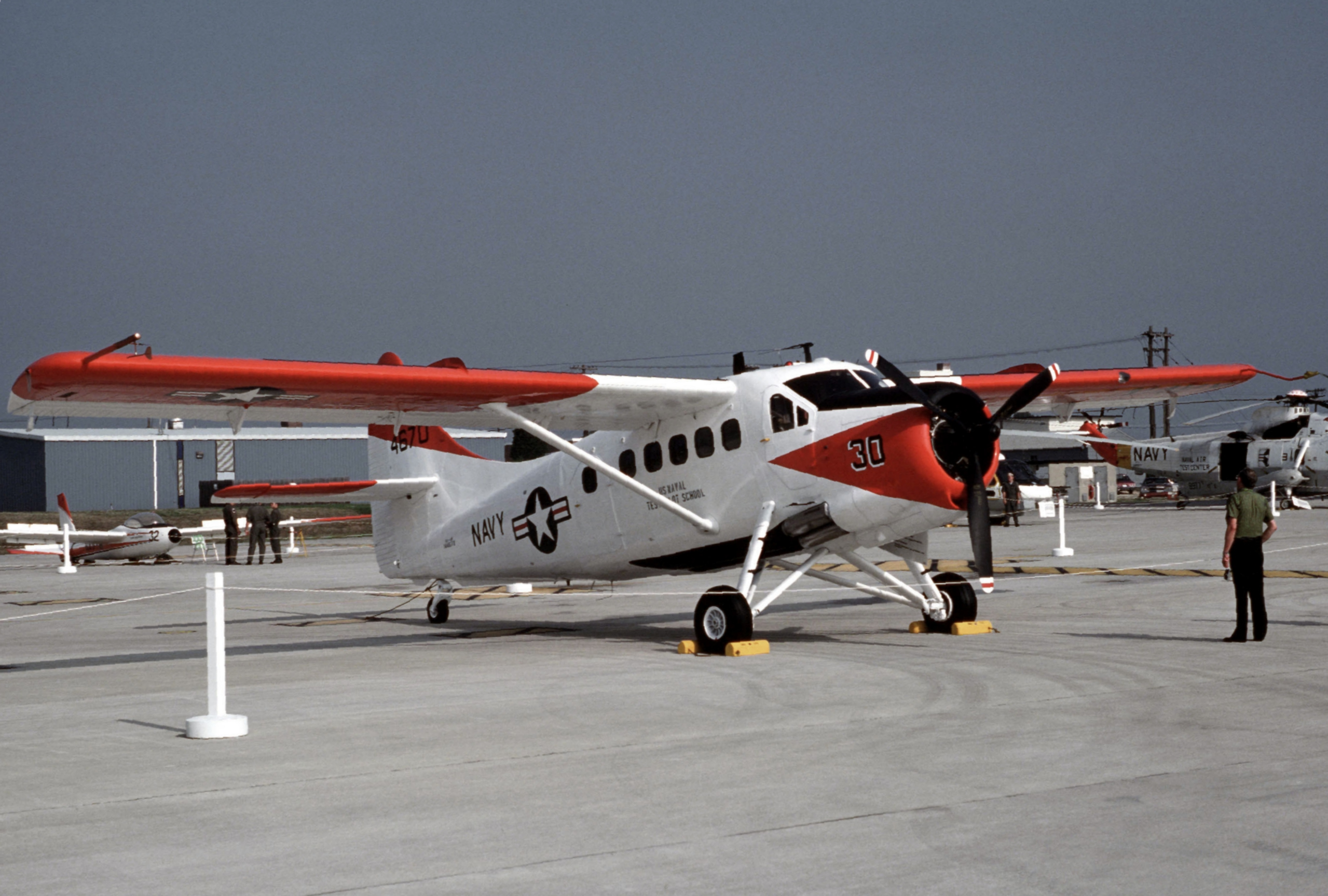 A U.S. Navy De Havilland Canada U-1B Otter (BuNo 144670) on display during the open house Expo '83 at the Naval Air Station Patuxent River, Maryland (USA). As of 2011, the NU-1B was still flying with the Naval Test Pilot School. BuNo 144670 has been in service with the U.S. Navy longer than any other aircraft. It was delivered to the U.S. Navy on 28 September 1956 where it went into service with 13 other Otters at VX-6 in Antarctica, ferrying equipment and personnel to and from the South Pole until 1966. Primarily used to instruct lateral directional stability characteristics, it was the last U.S. Navy Otter to fly in Antarctica and is the only remaining military Otter in the world. It has been with the Test Pilot School since it left Antarctica. The aircraft is one of three "tail draggers" here at the school.[1]